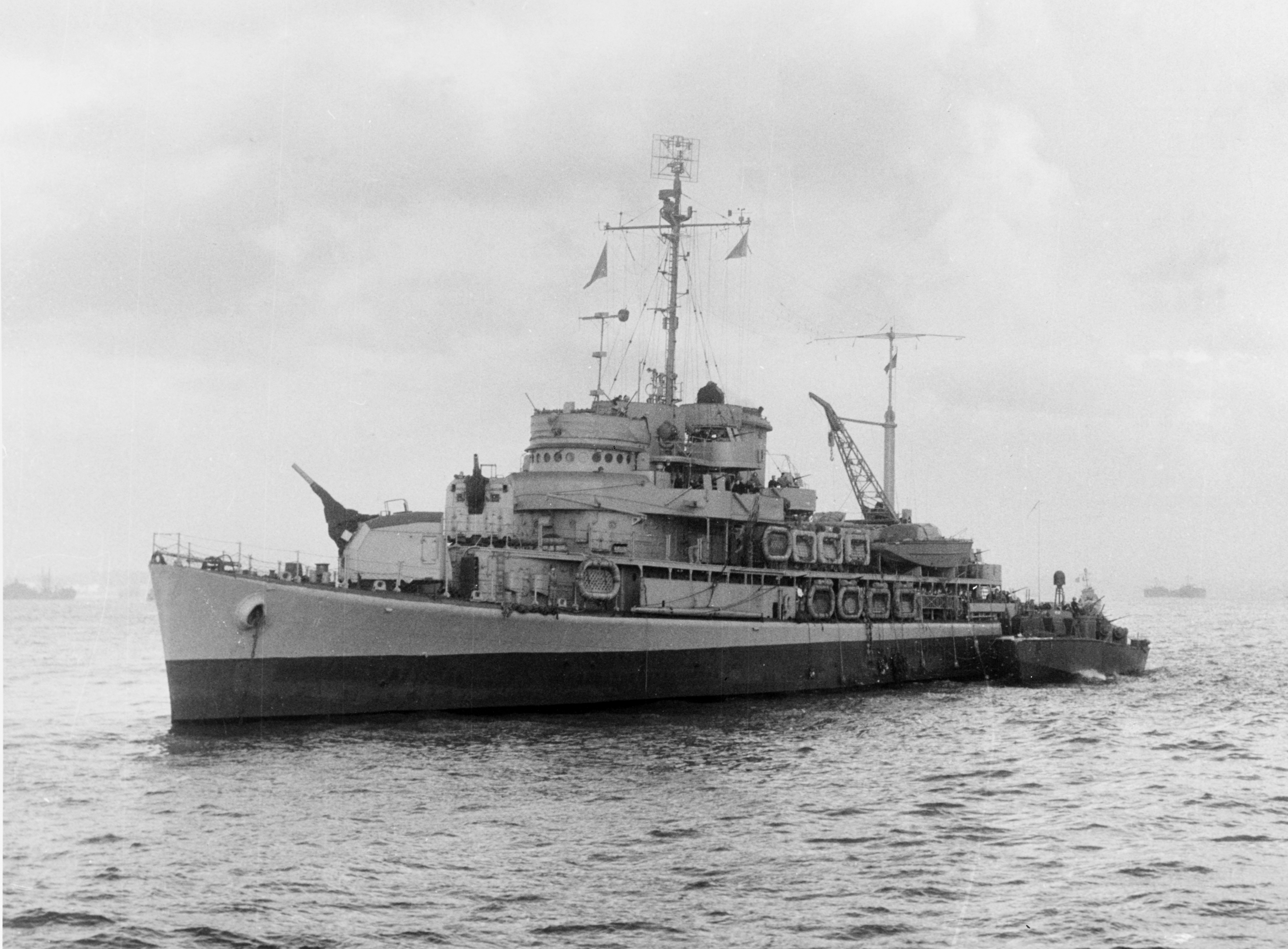 The U.S. Navy amphibious force flagship USS Biscayne (AVP-11) off Anzio, Italy, during Operation Shingle. Note the PT boat alongside.